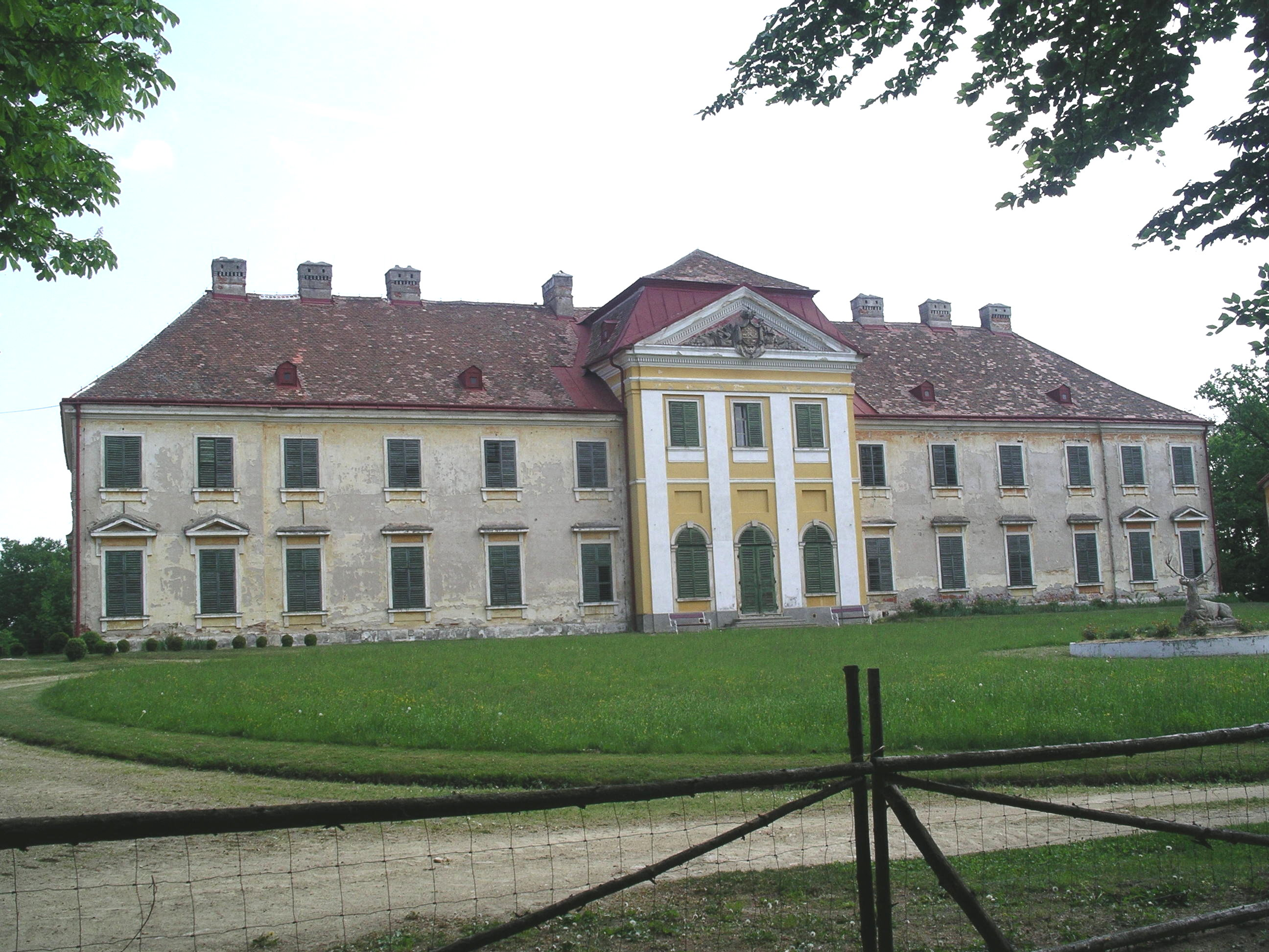 Photograph of Karlslust castle, Lower Austria.